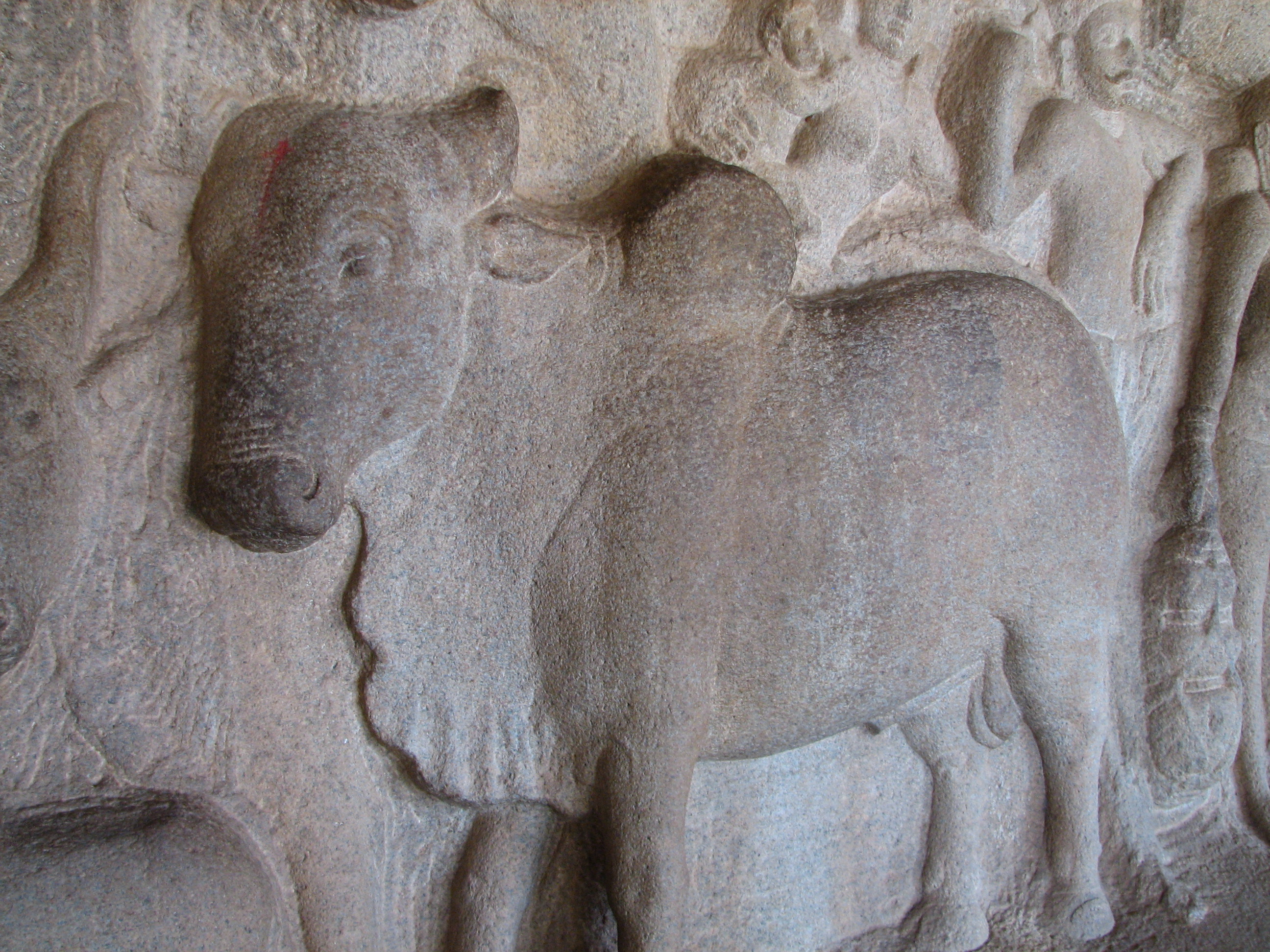 A prominent bas relief carving of a sacred cow in Mamallapuram.